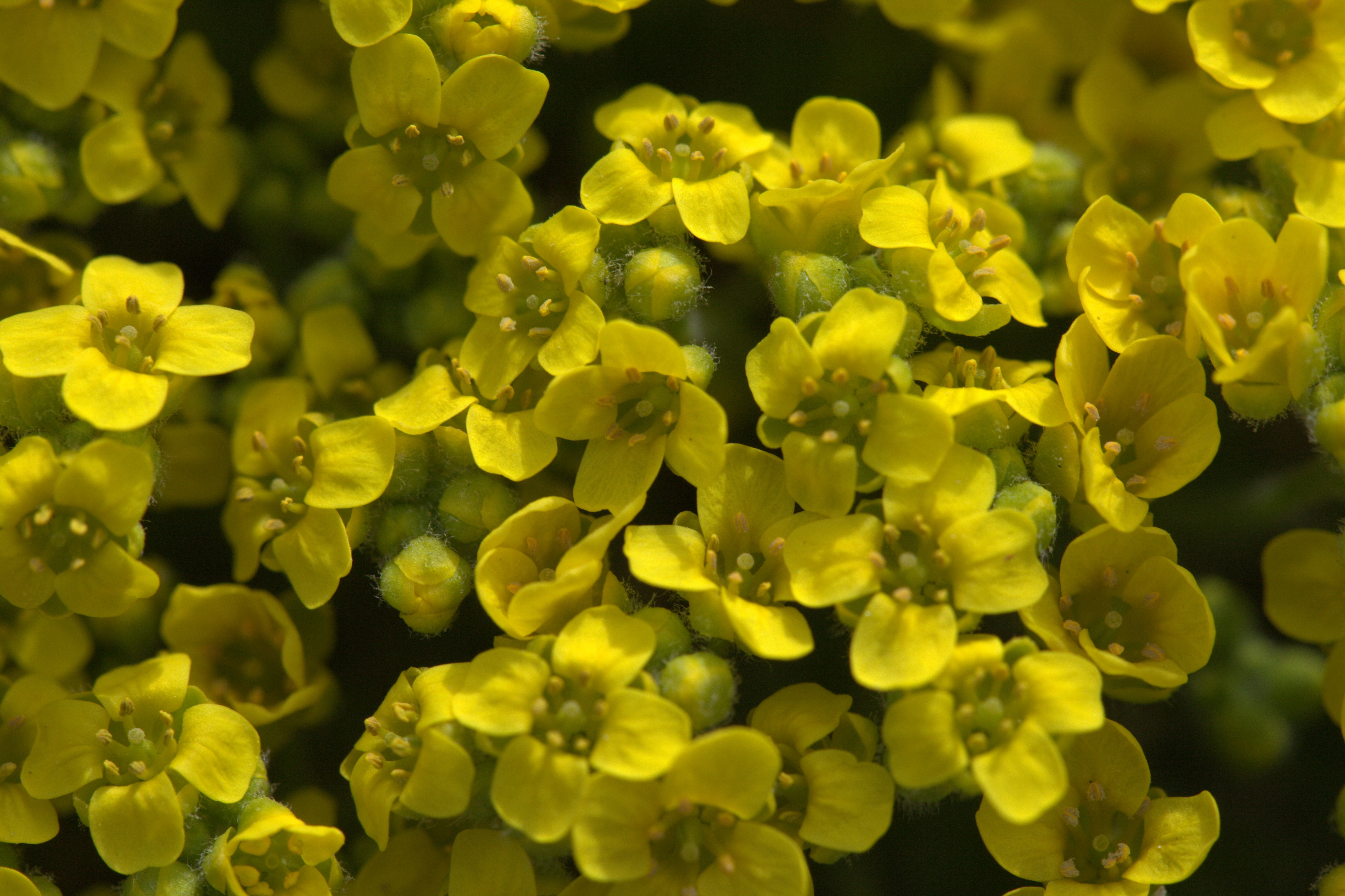 Flowers of Draba polytricha at one of the botanical garden greenhouses in Gotenburg, Sweden. The flowers is approximately 0.5 cm wide.